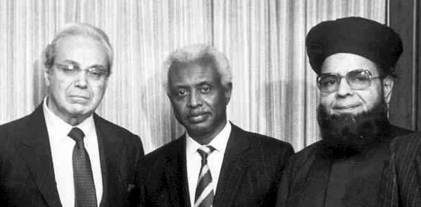 UN Secretary-General Javier Pérez de Cuéllar (left) meeting at United Nations Headquarters with an international peace delegation for an end to the Iran–Iraq War: Dr. Hans Koechler, President of I.P.O. (right), Shah Ahmad Noorani Siddiqui, Pakistan (second from right), Field Marshal Abdul Rahman Sowar Al-Dahab, former Head of State of Sudan (third from right) (New York, 16 June 1988)